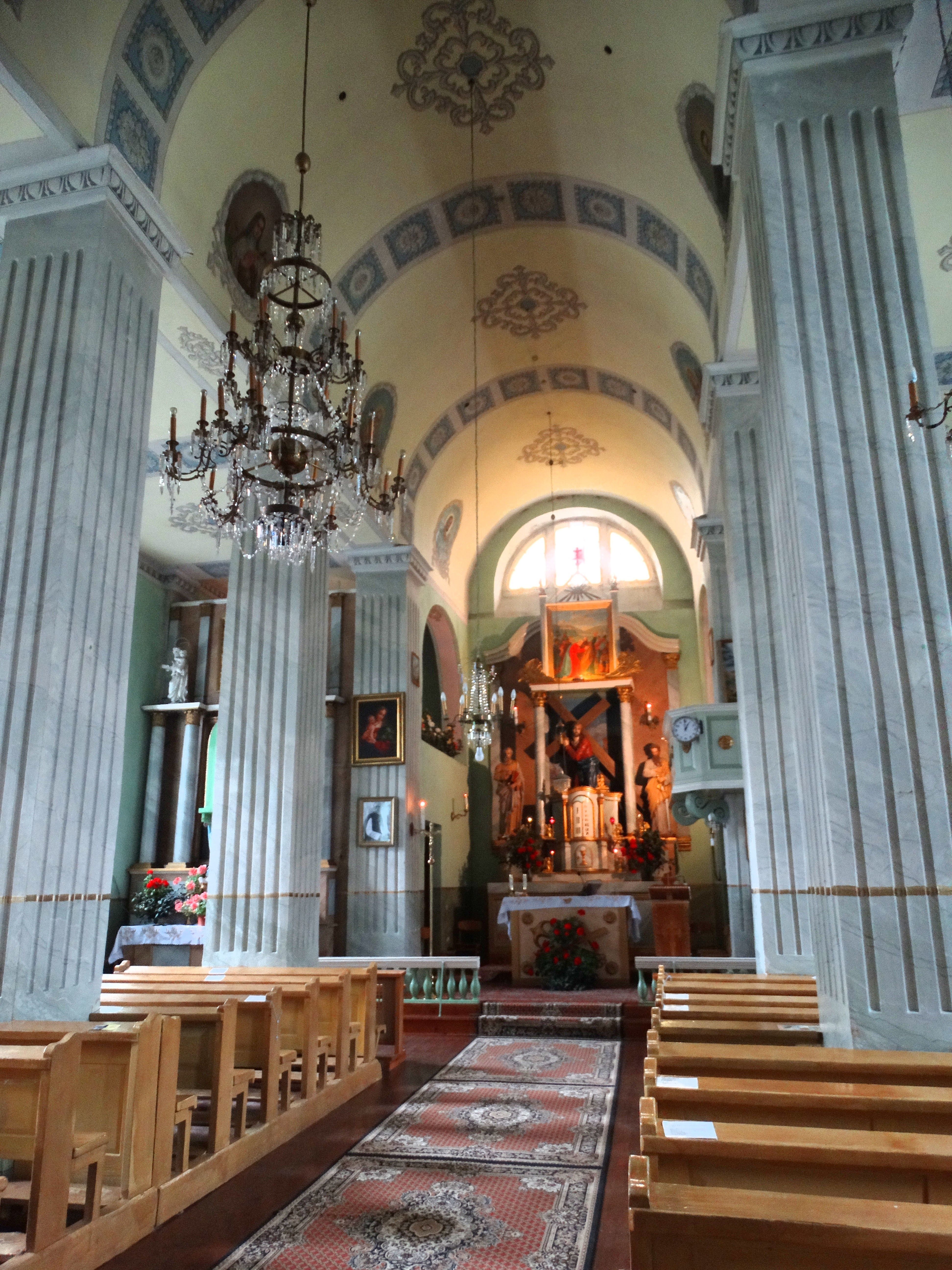 Catholic Church, Naujas Strūnaitis, Švenčionys district, Lithuania